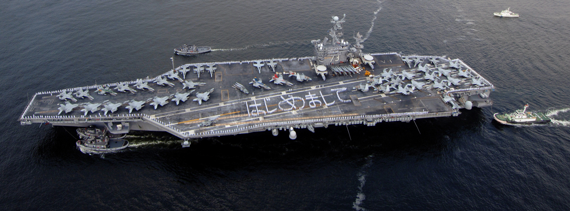 080925-N-9565D-001 YOKOSUKA, Japan (Sept. 25, 2008) Sailors aboard the aircraft carrier USS George Washington (CVN-73) form the phrase "Hajimemashite," which means "Nice to meet you" in Japanese, as they arrive at Fleet Activities Yokosuka, Japan.